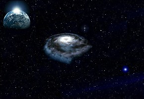 Simulation of a permanent wormhole.